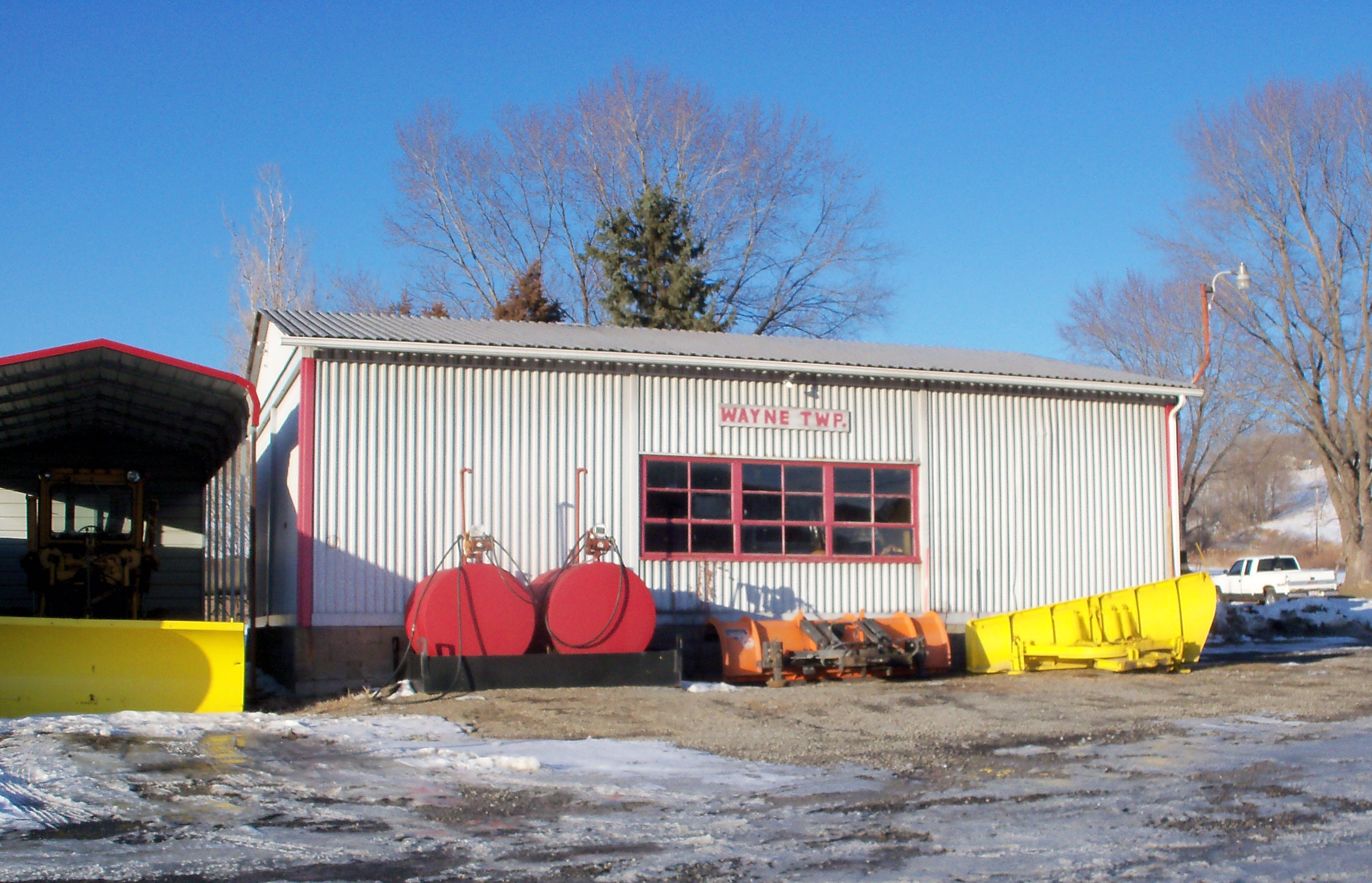 Township building in Wayne Township, Columbiana County, Ohio; corner of 518 and 164.